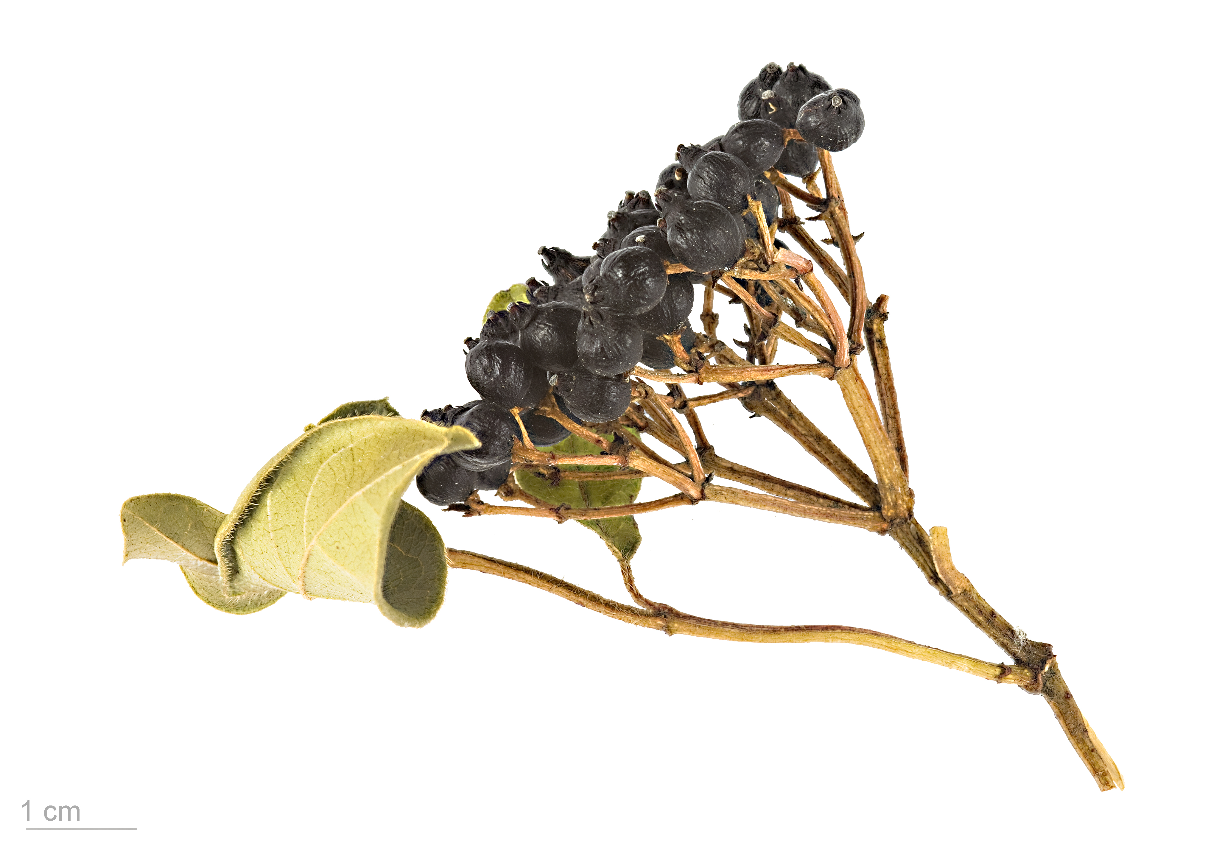 Laurustinus , fruits and seeds